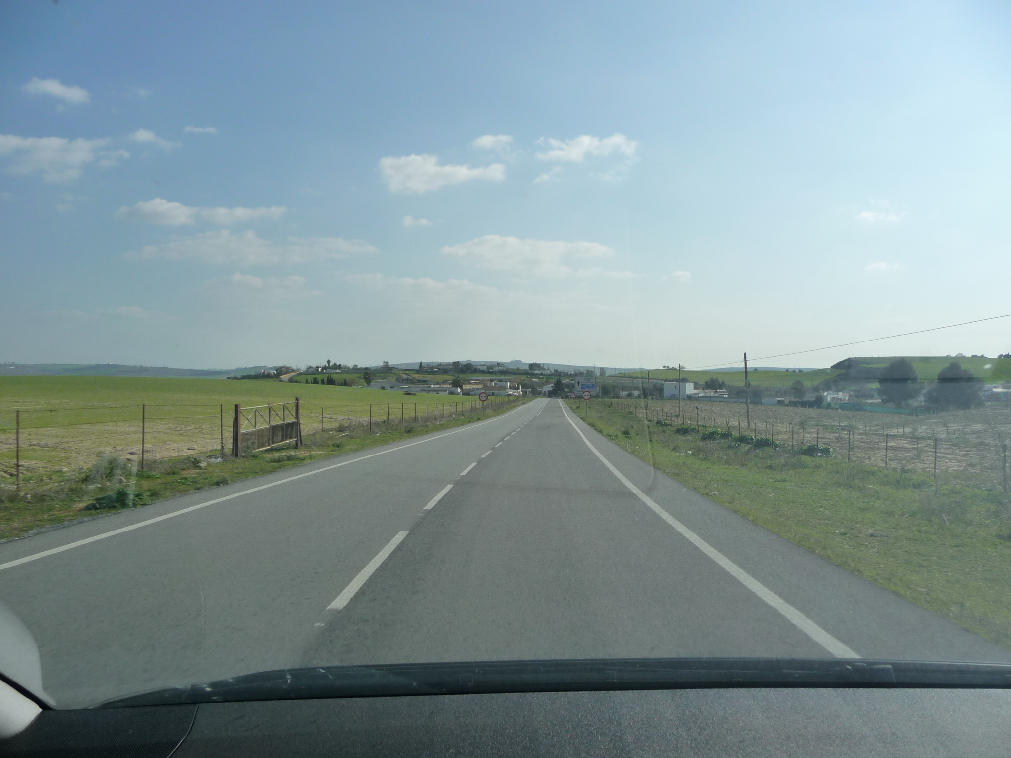 Mesas de Asta in Jerez de la Frontera (Andalusia, Spain)